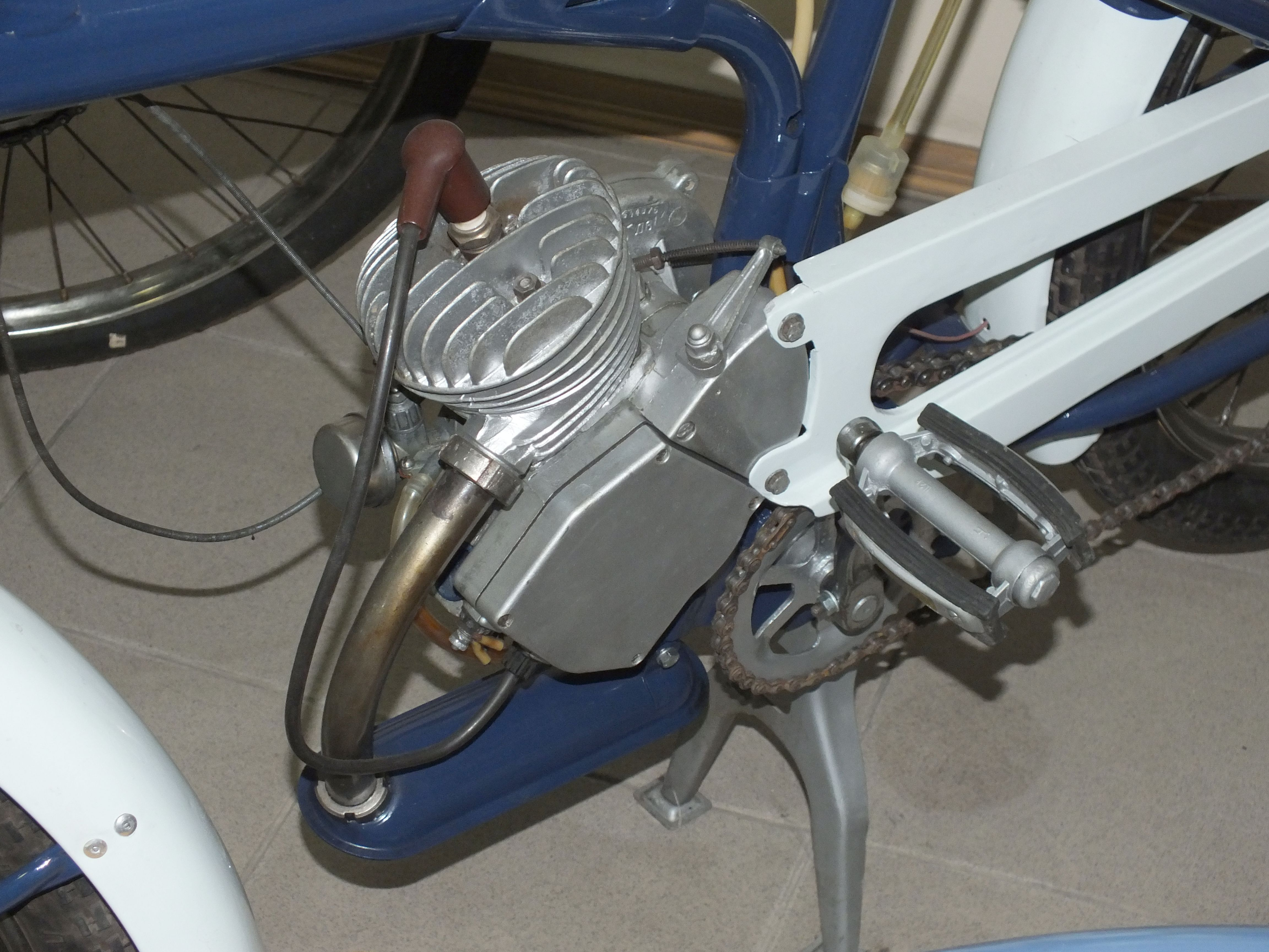 Motorcycles of Russia